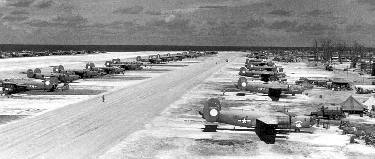 Aircraft of the 27th BS and 38th BS at Kwajalein in June of 1944. USAF Photo